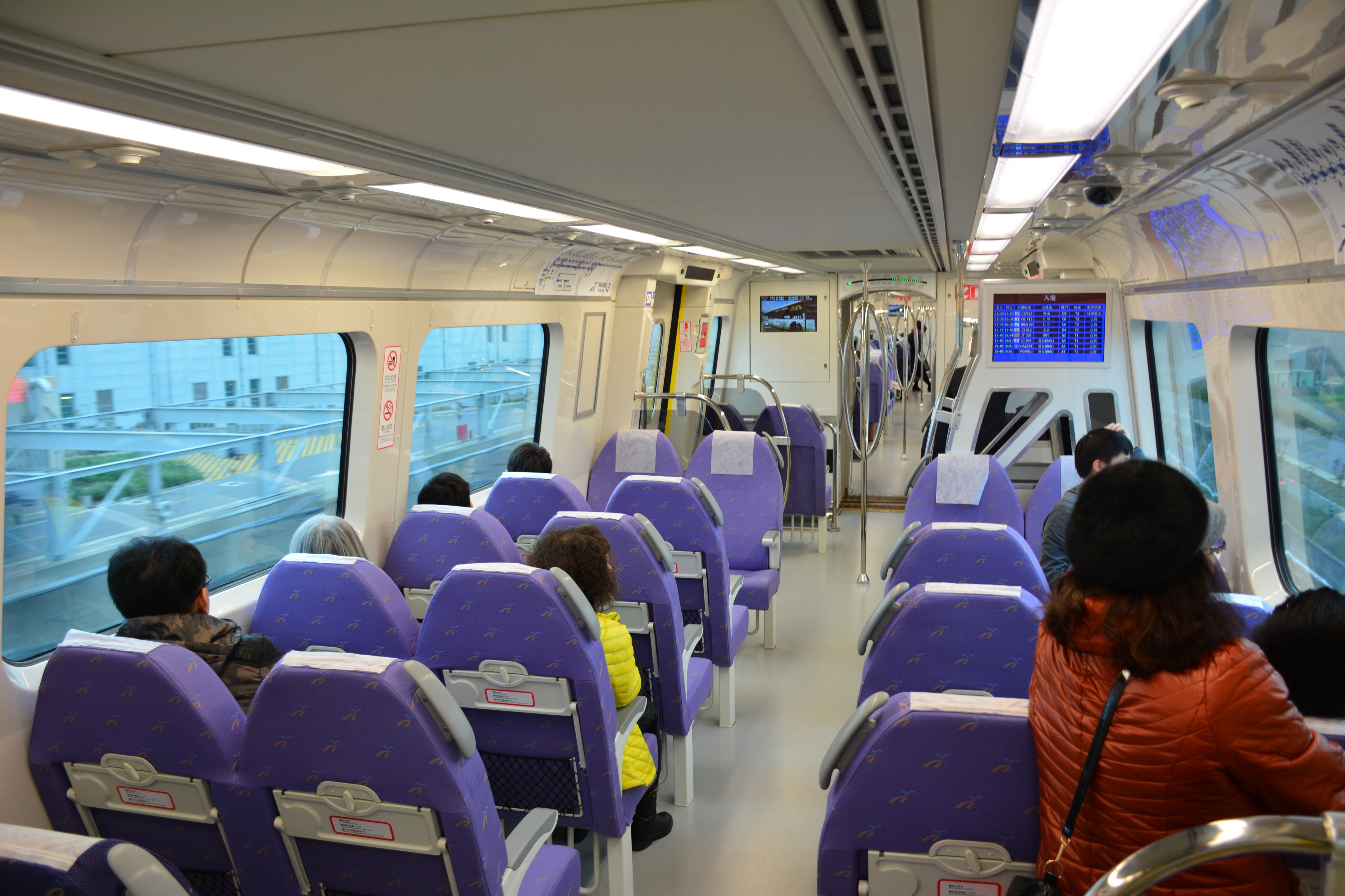 Inside of Taoyuan Airport MRT Express Train.